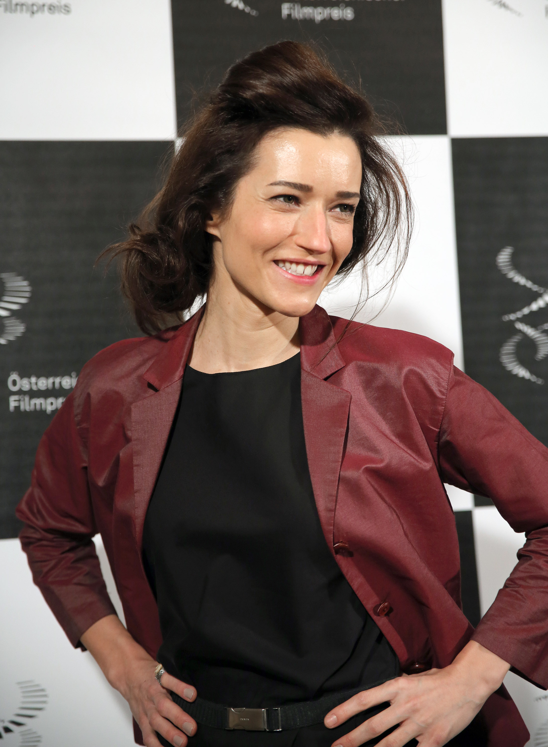 Angela Gregovic, Austrian Film Awards 2013 (Vienna).